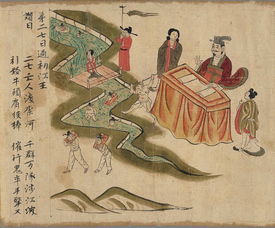 Fragments of Fo shuo yan luo wang shou ji si zhong yu xiu sheng qi wang sheng jing tu jing by Zang chuan.